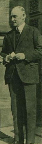 Thomas Henry Burn, MP for Belfast St Anne's at Wesminster, and Belfast West at Stormont